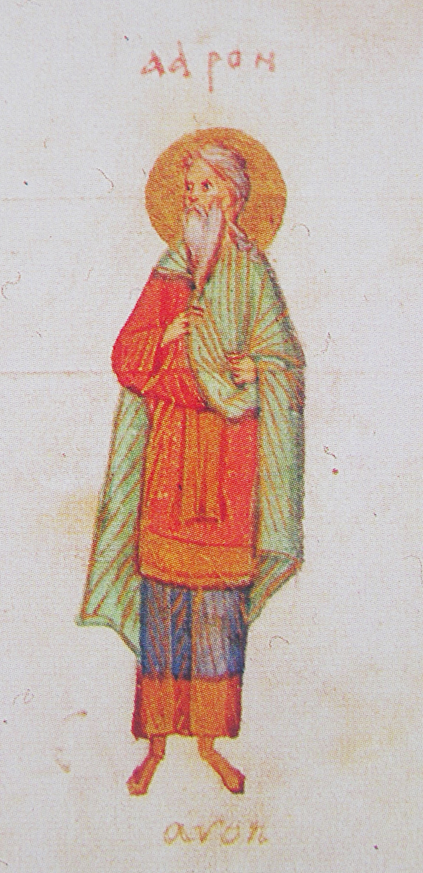 Kievan Psalter